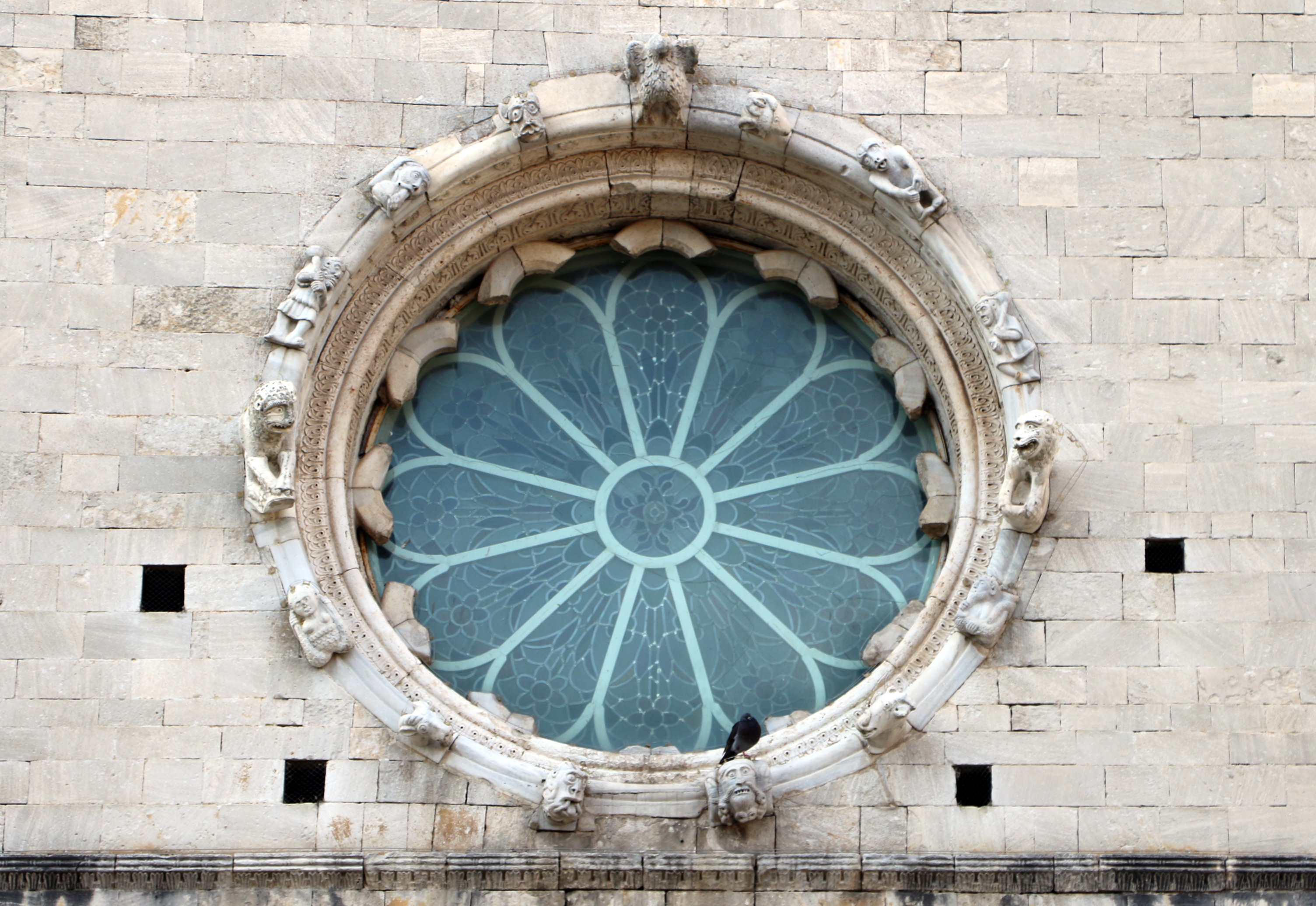 Osimo, Ancona